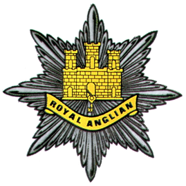 cap badge Royal Anglian Regiment